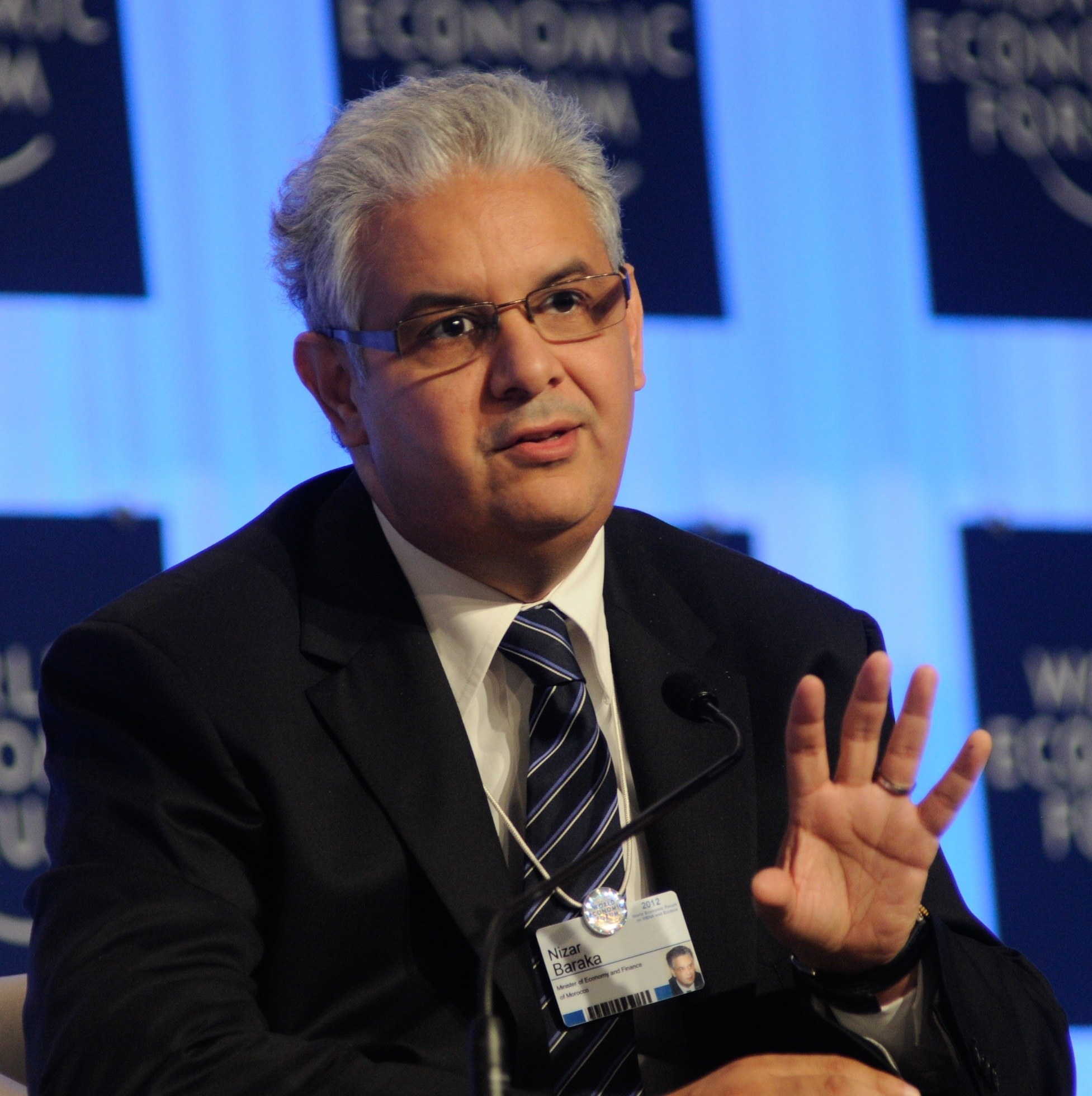 ISTANBUL, TURKEY, 6 June 2012 - Nizar Baraka, Minister of Economy and Finance of Morocco, speaks during a plenary session at the World Economic Forum on the Middle East, North Africa and Eurasia in Istanbul, 4-6 June 2012. Copyright World Economic Forum ( by Norbert Schiller